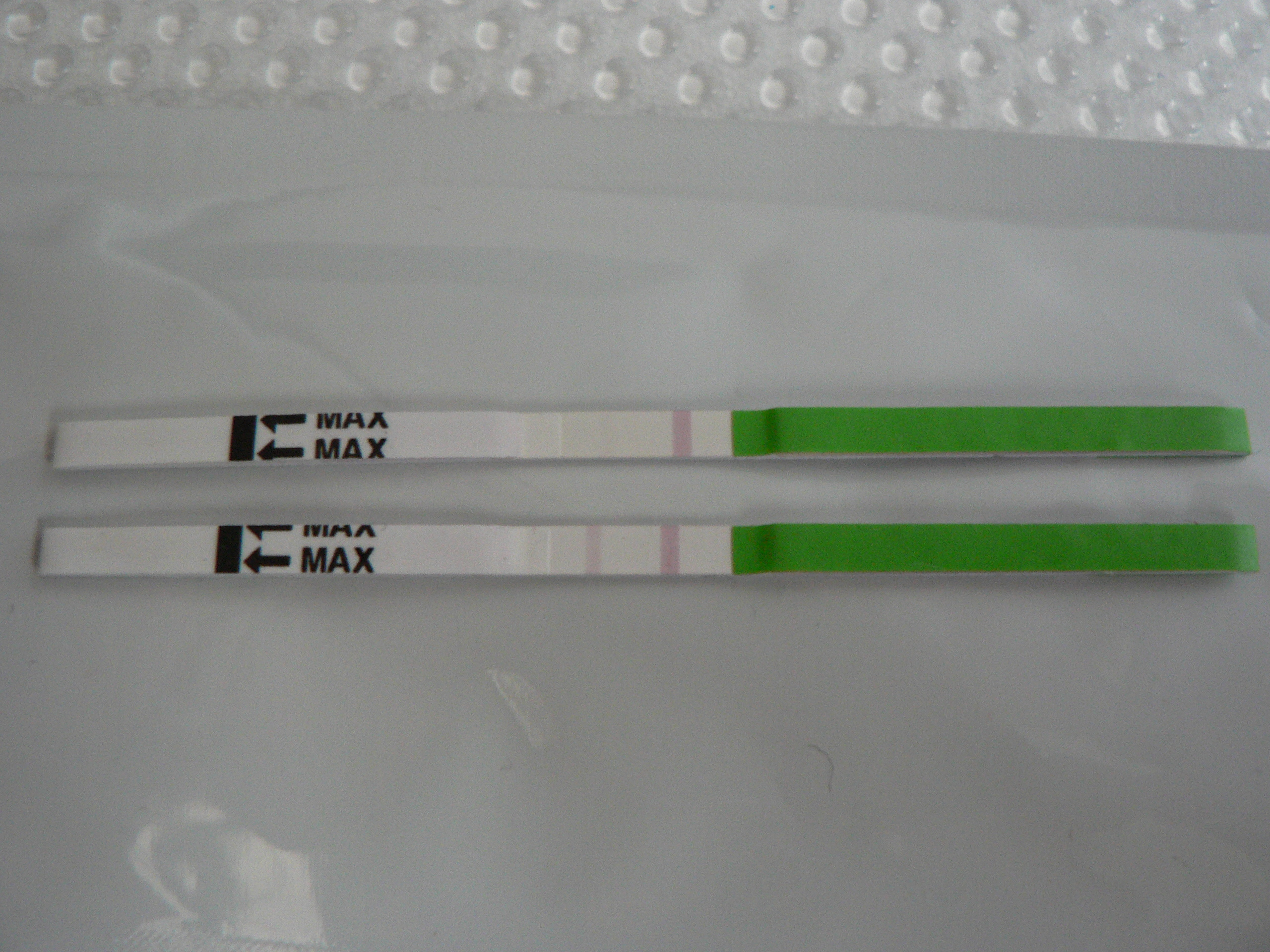 urine-based ovulation test detecting LH